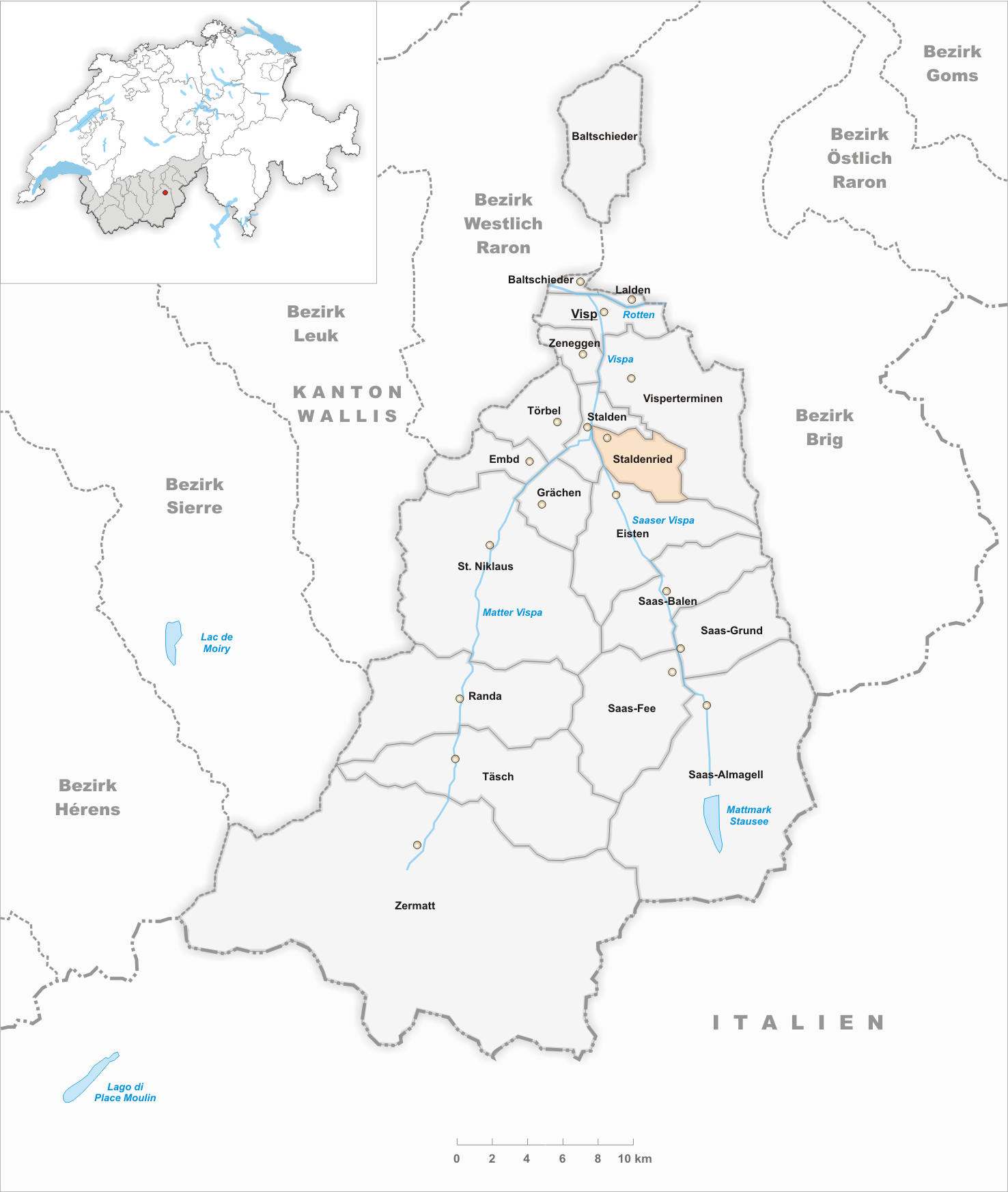 Municipality Staldenried